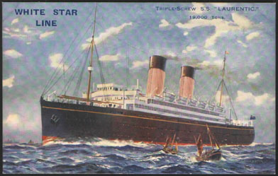 White Star Line's Laurentic